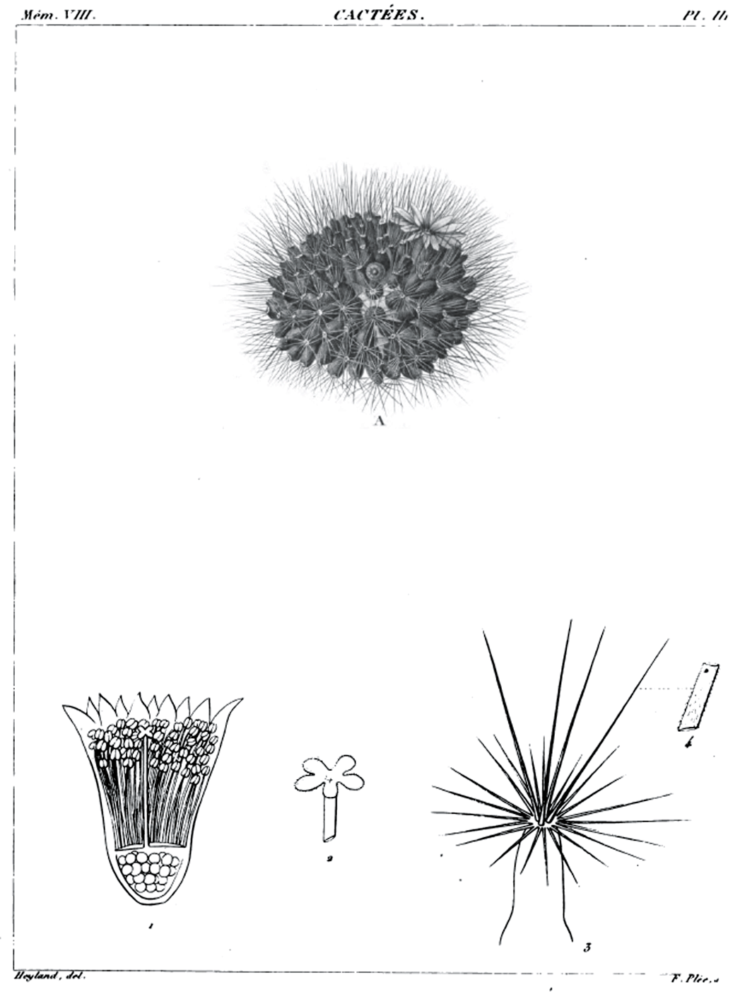 Iconotype of Mammillaria crinita